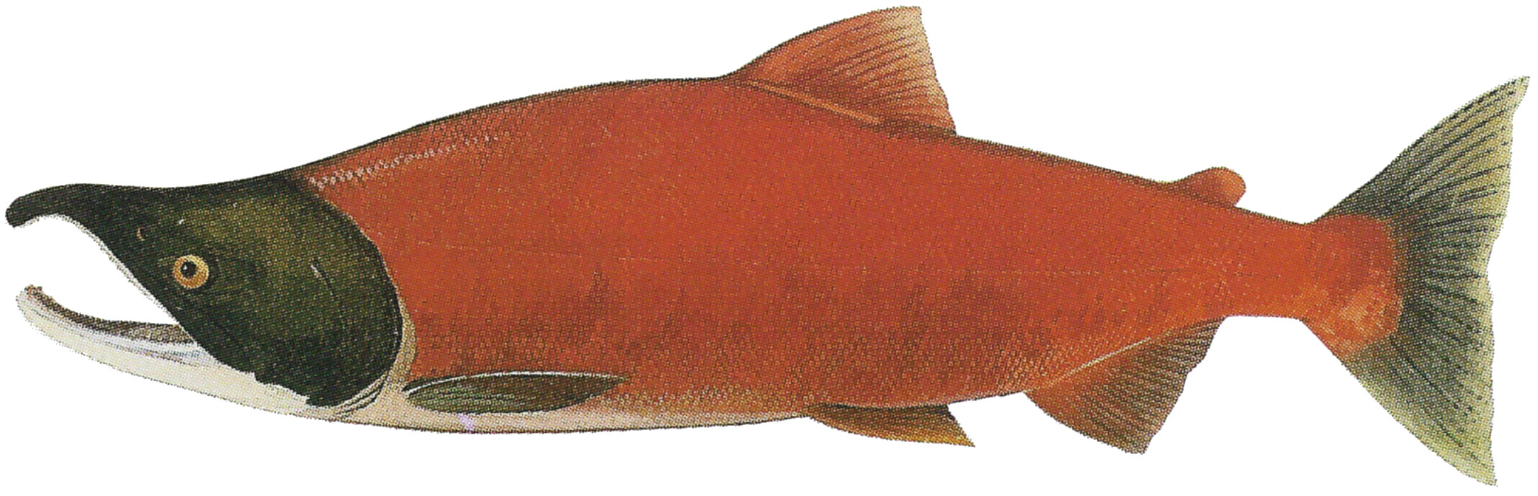 Drawing of male freshwater phase Sockeye (red) salmon (Oncorhynchus nerka) from a pamphlet about the Lake Washington Ship Canal Fish Ladder at the Hiram M. Chittenden Locks, Seattle, Washington, scanned at 600 dpi and cleaned up.